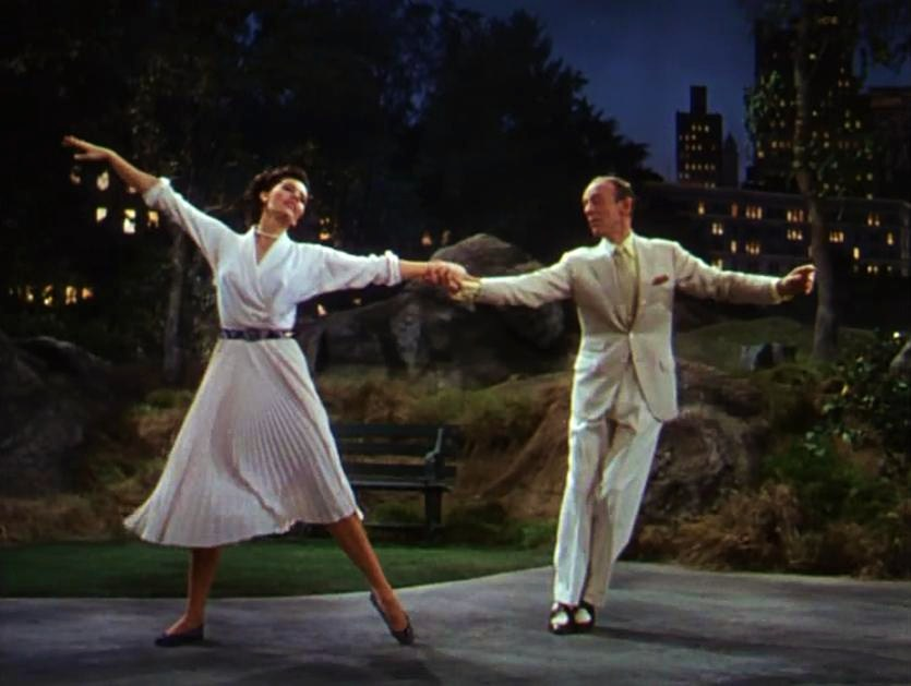 Cyd Charisse & Fred Astaire (number Dancing in the Dark) in The Band Wagon - trailer (cropped screenshot)